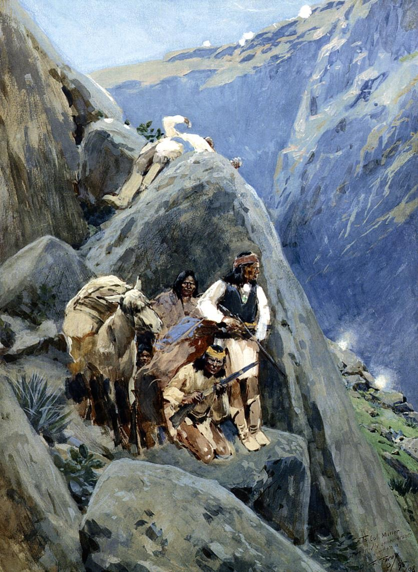 Apache Indians In The Mountains